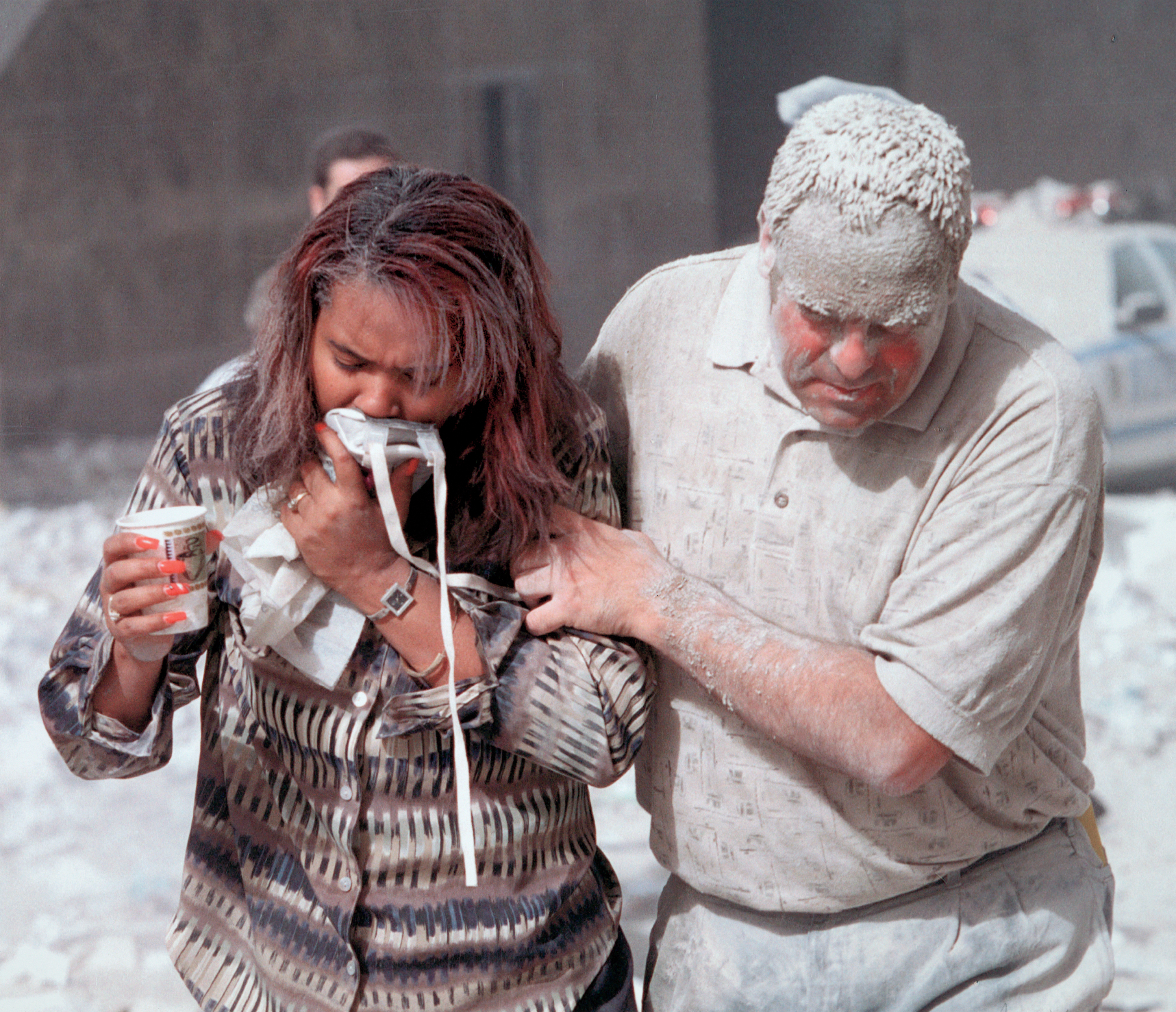 Title: [Man covered with ashes assisting a woman walking and holding a particle mask to her face, following the September 11th terrorist attack on the World Trade Center, New York City] / Don Halasy. * Creator(s): Halasy, Don, photographer * Date Created/Published: c2001. * Medium: 1 photograph (digital print) : inkjet, color. * Reproduction Number: LC-DIG-ppmsca-01813 (digital file from original) * Rights Advisory: No restrictions on publication. For information see "Don Halasy" ( * Call Number: LOT 13521-8, no. 1 [P&P] * Repository: Library of Congress Prints and Photographs Division Washington, D.C. 20540 USA * Notes: o Title devised by Library Staff. o Signed in pencil. o Inkjet digital print made on Epson Professional Media archival matte paper via scan of an original 35mm film negative. o Copyright by Don Halasy, NY Post. o Exhibited: Witness and Response: September 11 Acquisitions at the Library of Congress, 2002. o Unprocessed in PR 13 CN 2002:076, Don Halasy, #246. * Subjects: o World Trade Center (New York, N.Y.)--Disasters--2000-2010. o September 11 Terrorist Attacks, 2001. o Disaster victims--New York (State)--New York--2000-2010. * Format: o Inkjet prints--Color--2000-2010. o Photographs--Color--2000-2010. * Collections: o Miscellaneous Items in High Demand * Part of: Photographs from "Ground Zero, World Trade Center Photo Exhibit" held at the Bolivar Arellano Gallery, New York City * Bookmark This Record